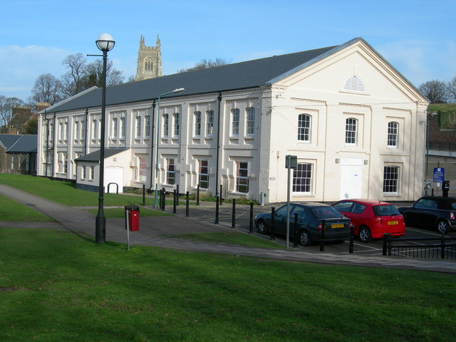 Chatham Library, Gun Wharf, Chatham This library only opened a few years ago having relocated from a structurally unsound building nearby, now demolished. I don't know what this building used to be for prior to the library being here.